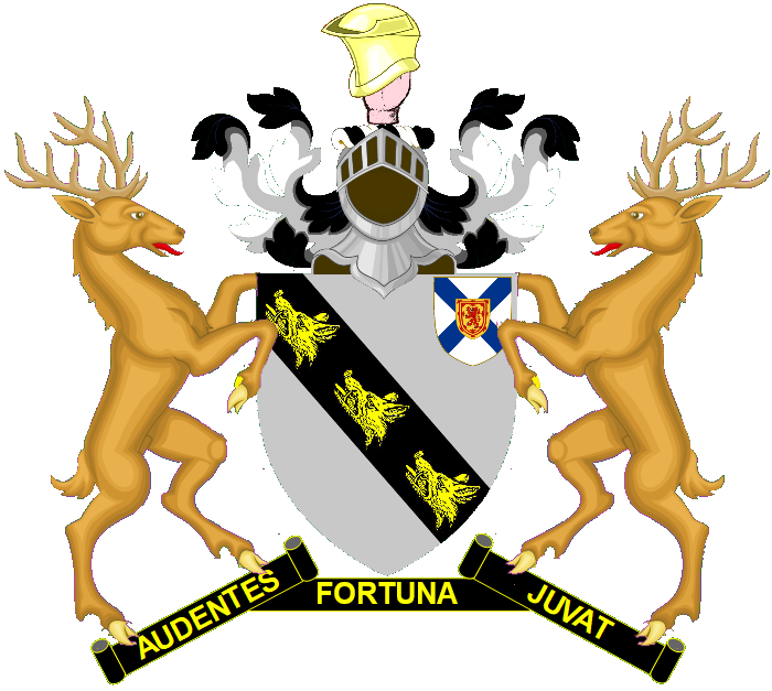 The armorial achievement of the Turing baronets of Foveran